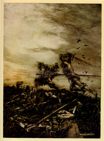 Arthur Rackham (1917). "How Mordred was Slain by Arthur, and How by Him Arthur was Hurt to the Death". From The Romance of King Arthur and His Knights of the Round Table Alfred W. Pollard. New York: The Macmillan Company.